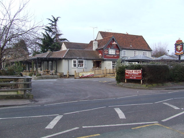 Bulls Head Pub, Turnford. Bulls Head Pub, High Road Turnford, which is currently a McMullens pub. 1125748 emerges from a culvert below the fence at the left of the picture.